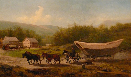 This is a 512 pixel wide image of File:Conestoga Wagon 1883.jpg